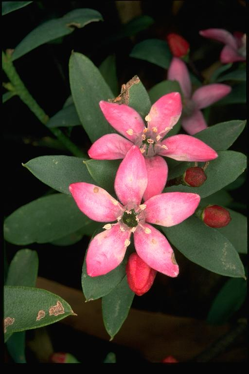 Philotheca myoporoides subsp. brevipedunculata in the Australian National Botanic Gardens